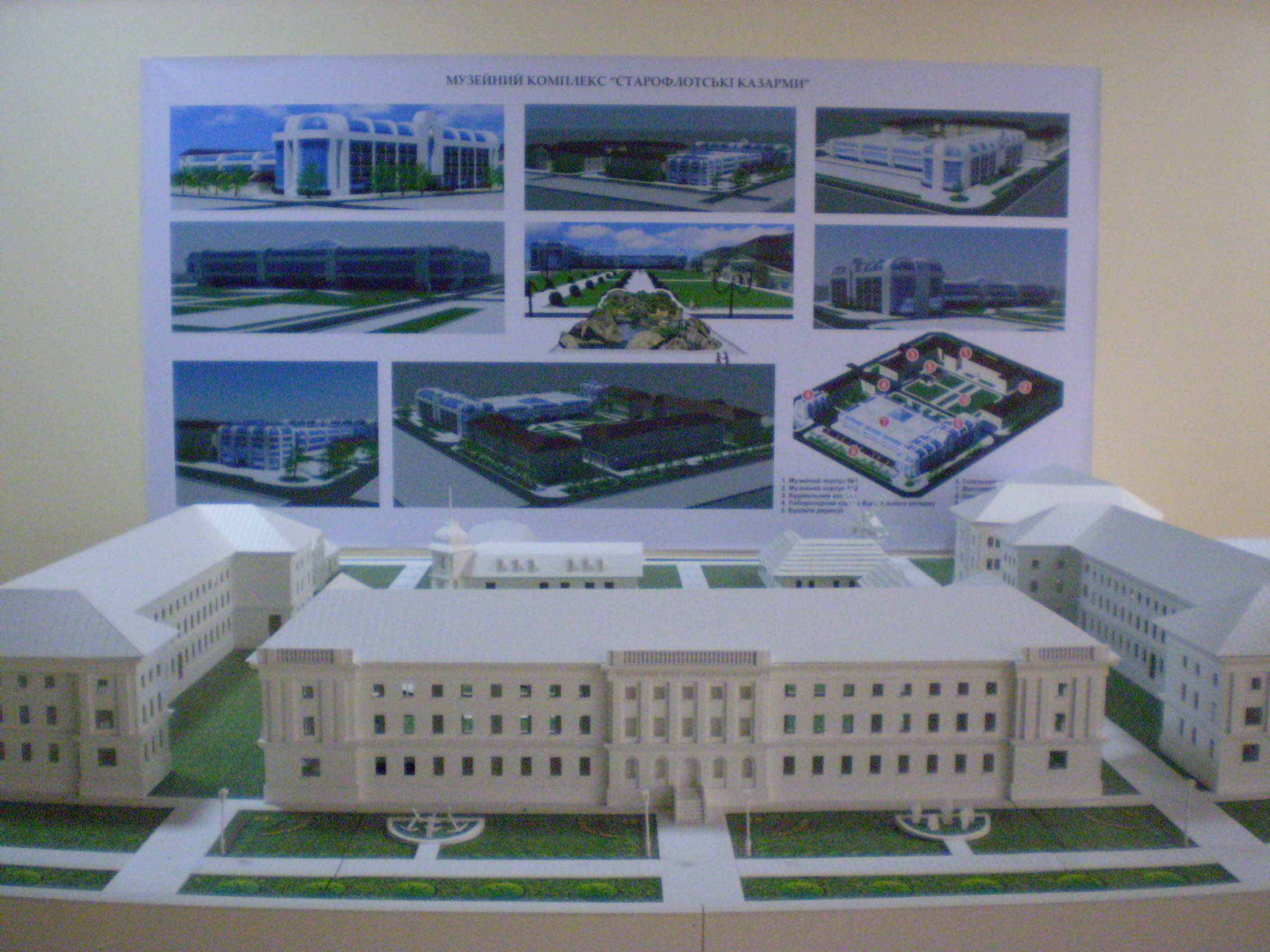 макет музейного комплексу "Старофлотські казарми" Миколаївська весна у Вікіпедії